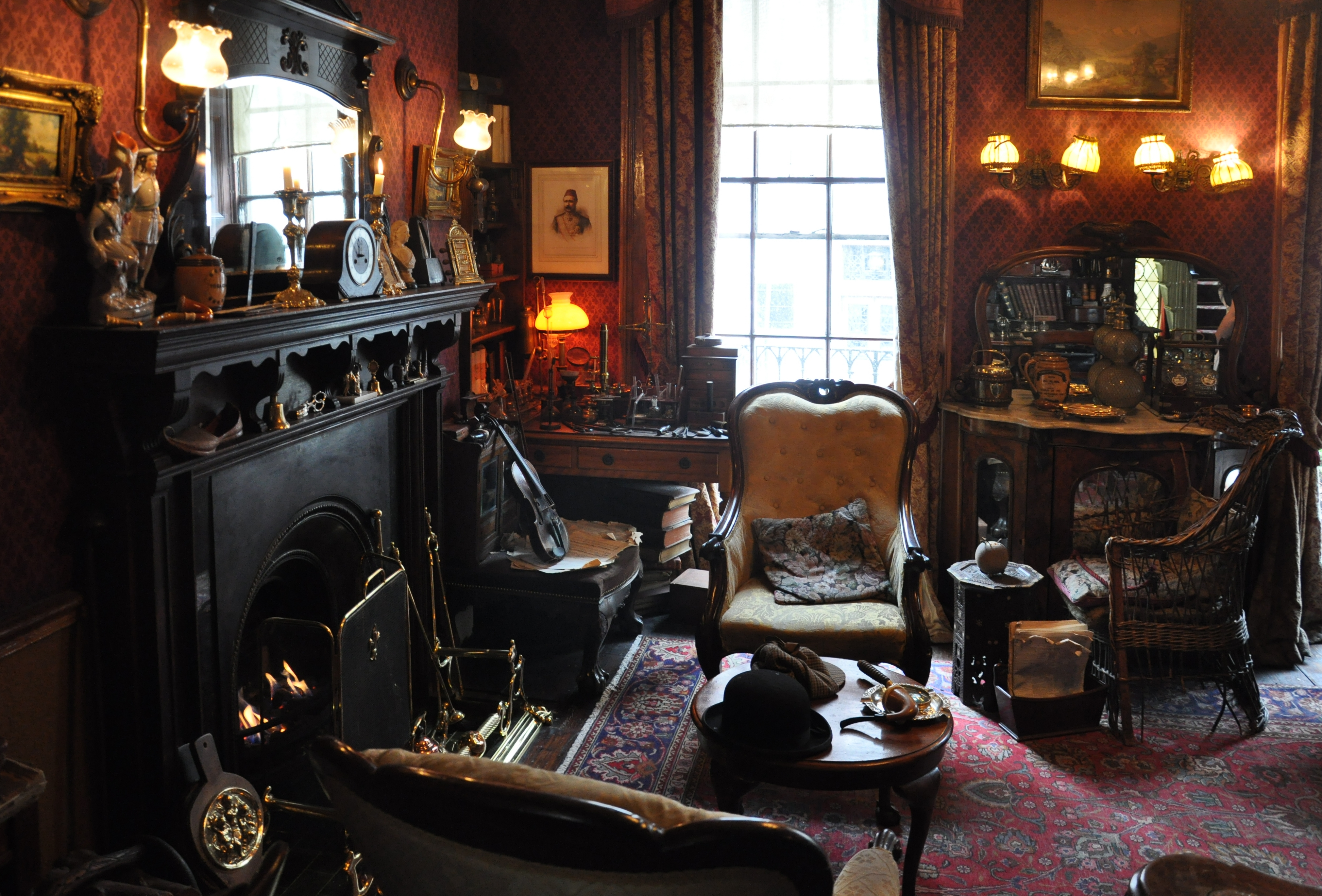 Sherlock Holmes Museum, Baker Street, London "Sitting Room"